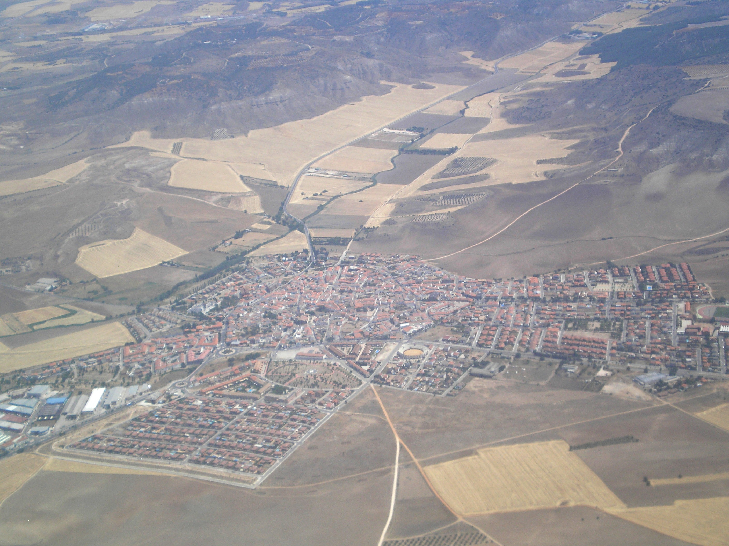 Torres de la Alameda (Madrid, España) viewed from the air.